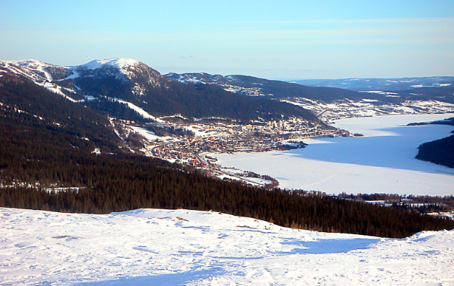 Åresjön (Lake Åre) seen from nearby ski resort Duved.